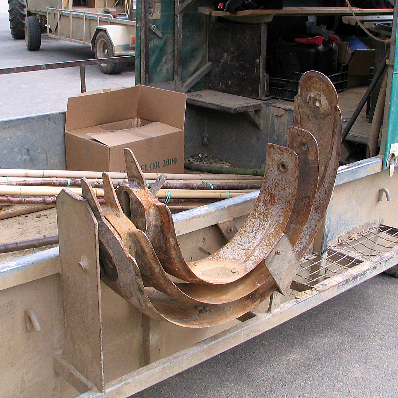 Blades of tree digger